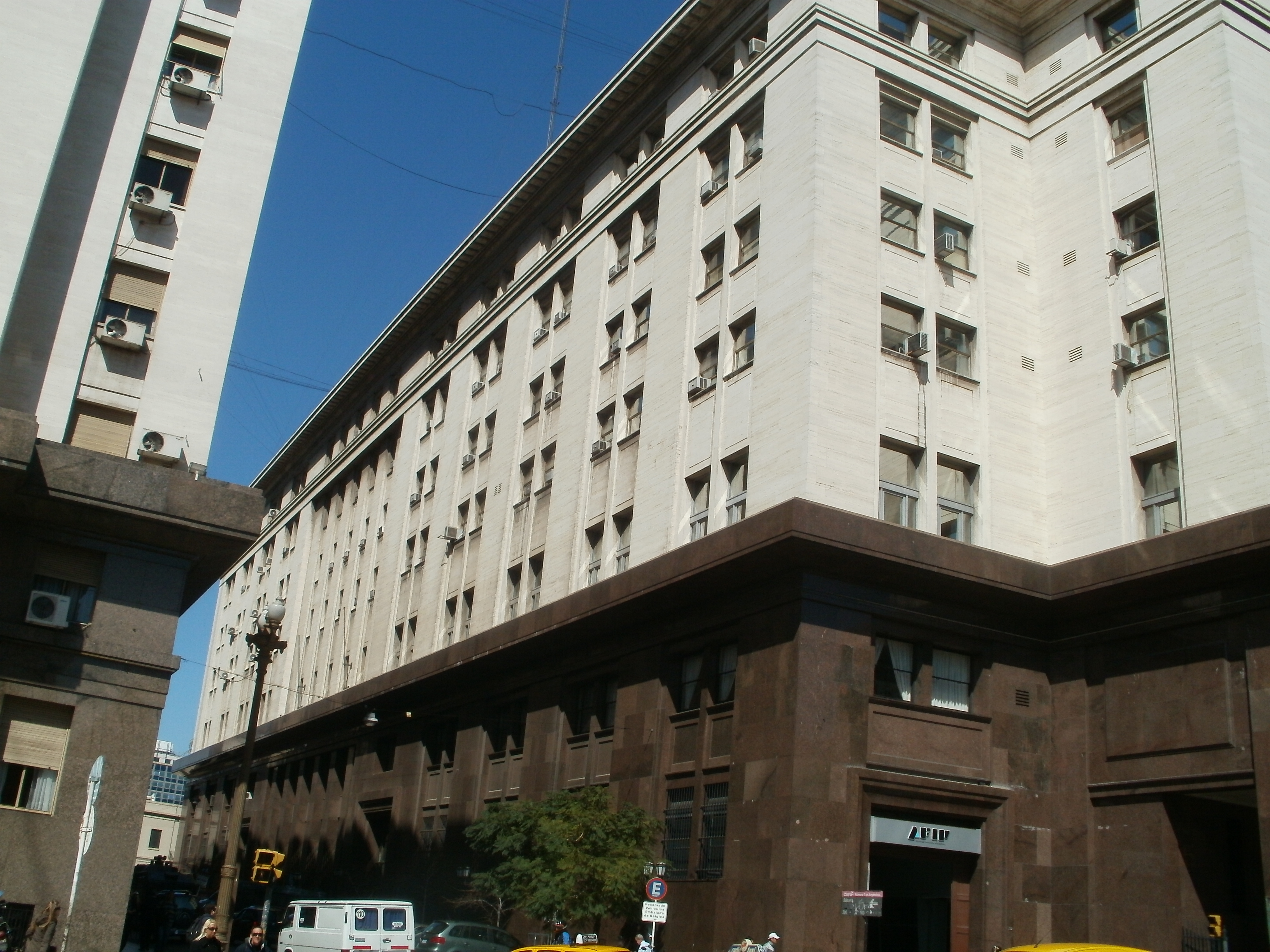 Su entrada se ubica a la vuelta de la AFIP.